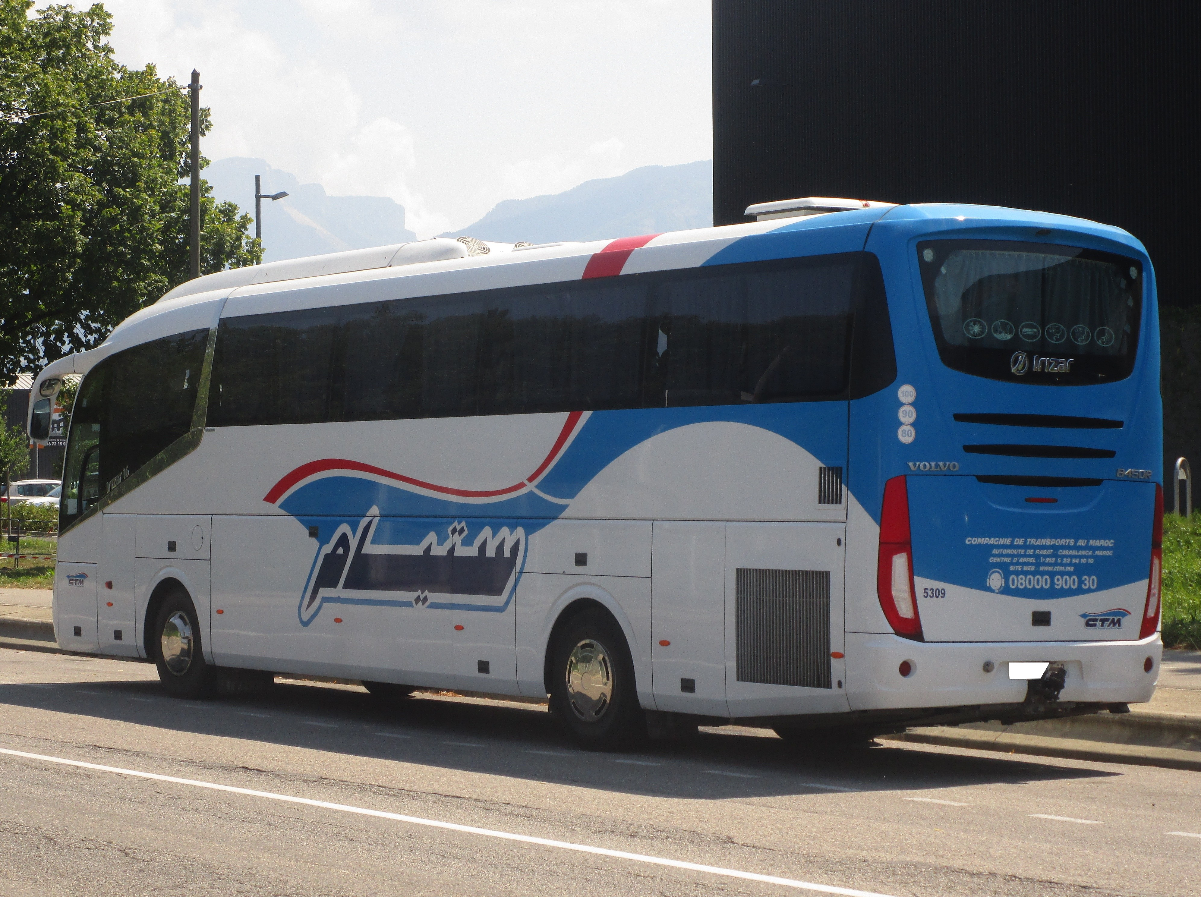 An Irizar i6 (n°5309 of the CTM) in Avenue des Landiers (Chambéry, France) on June 19, 2017.